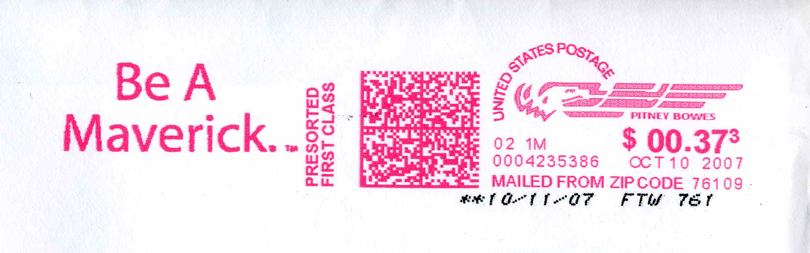 A U.S. Presorted First Class postage meter marking made with a Pitney Bowes mailstream system (detail). 2007.